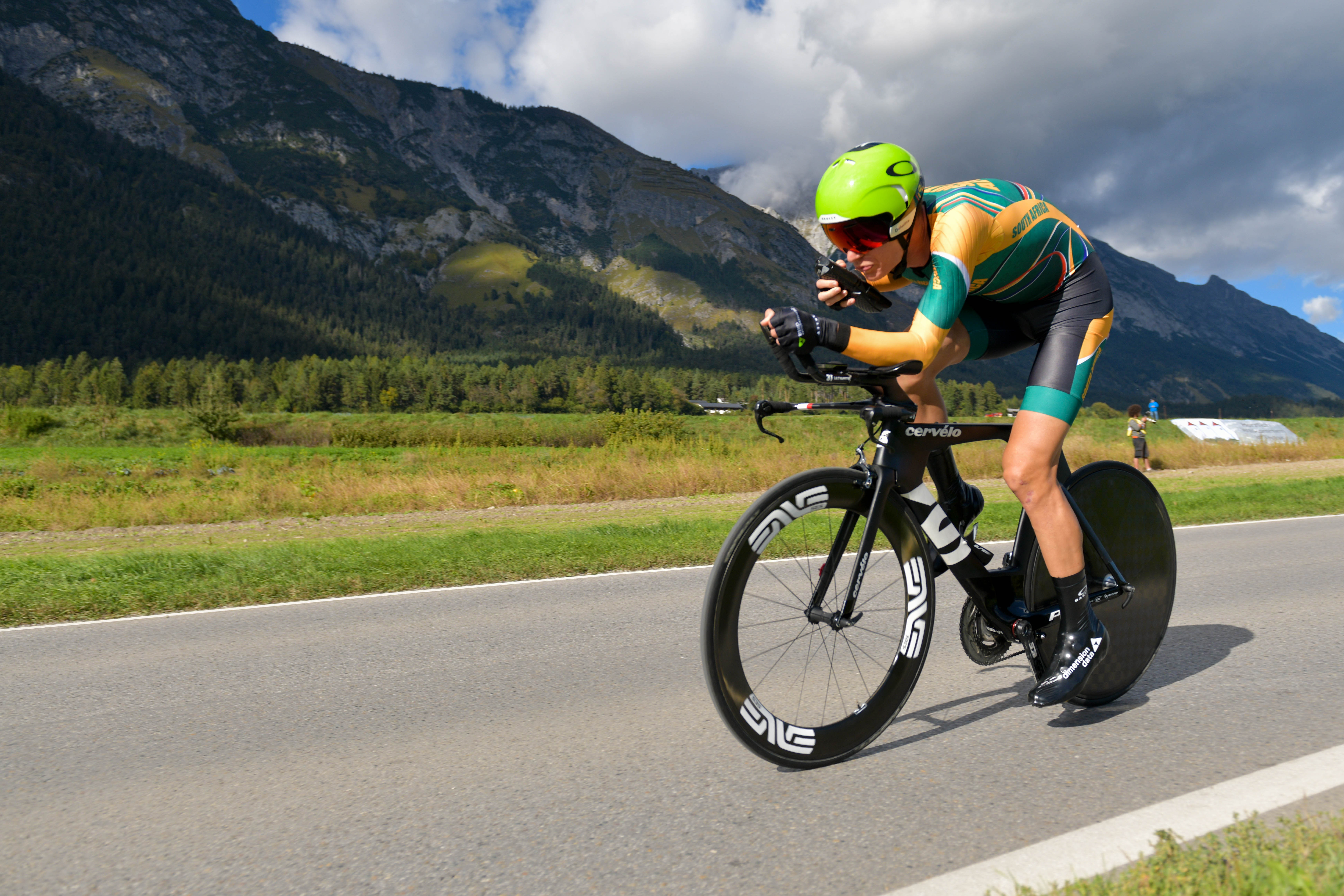 2018 UCI Road World Championships Innsbruck/Tirol Men under 23 Individual Time Trial. Picture shows: Stefan de Bod of South Africa